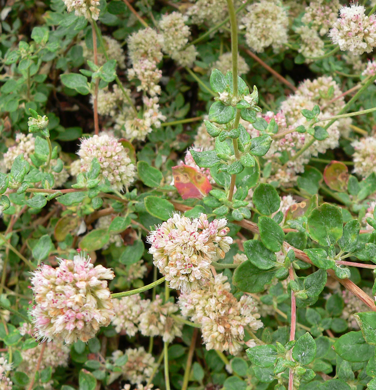 Photo of Eriogonum parvifolium at the Regional Parks Botanic Garden